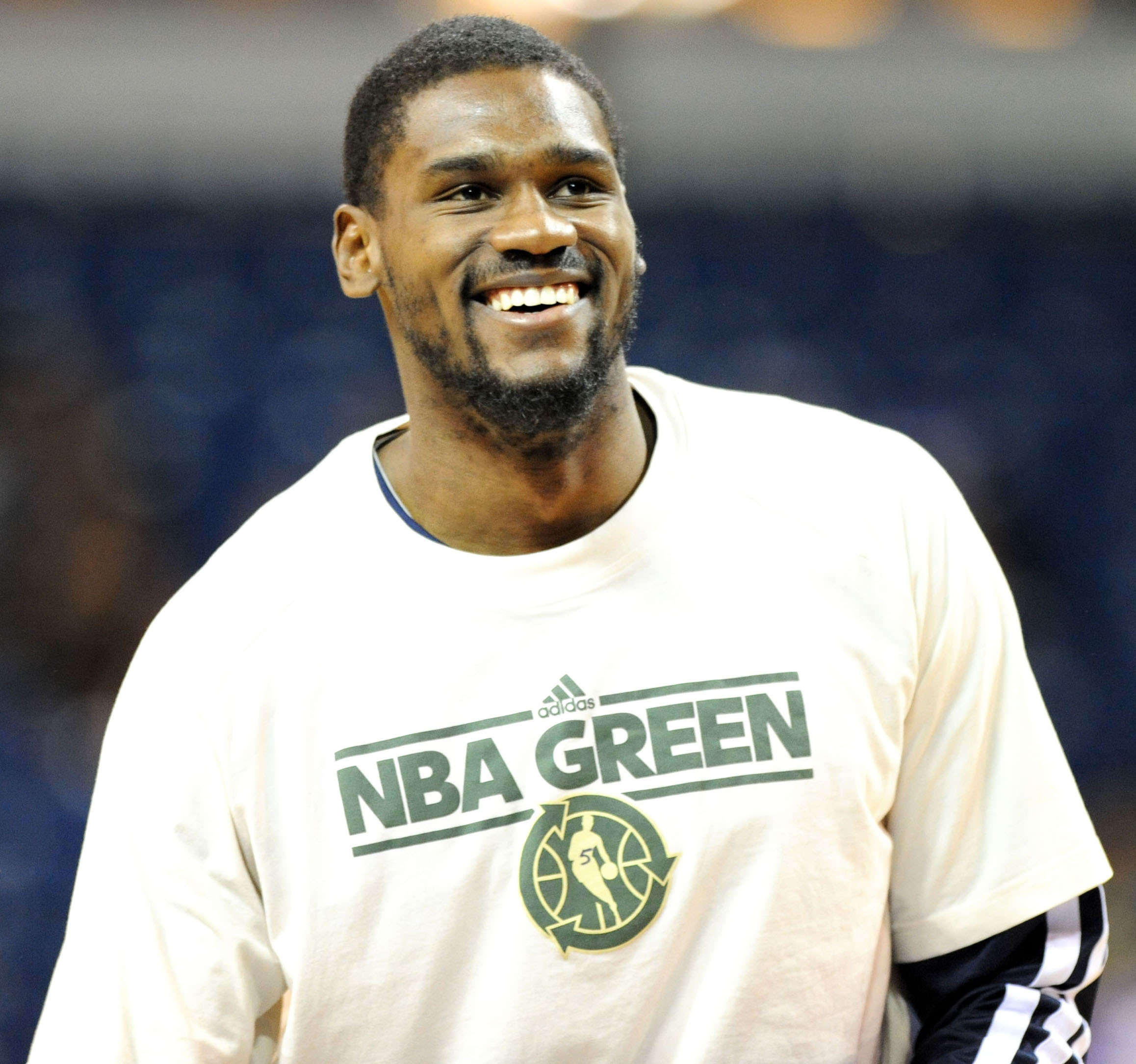 Dallas Mavericks forward Bernard James warms up before a contest with the Sacramento Kings at the Sleep Train Arena, April 5, 2013.